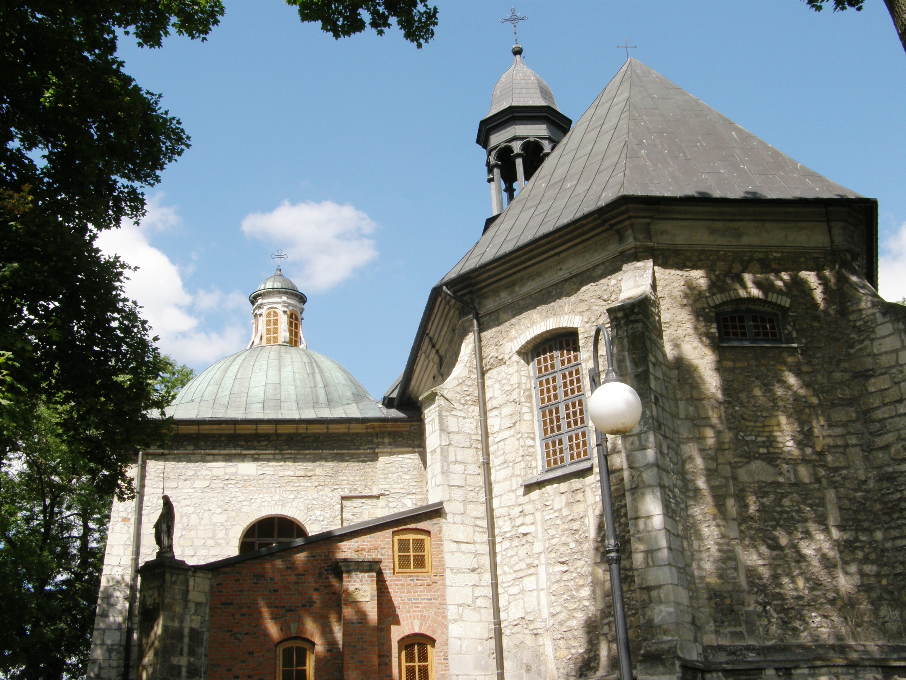 Church in Książ Wielki